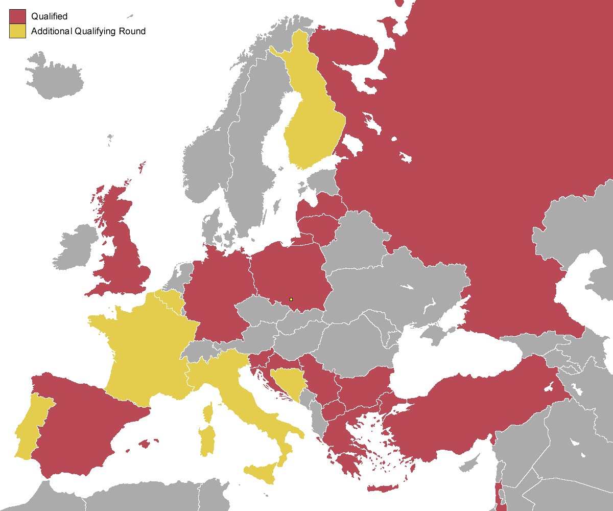 Performance of the participating countries during the Eurobasket 2009